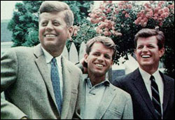 Kennedy